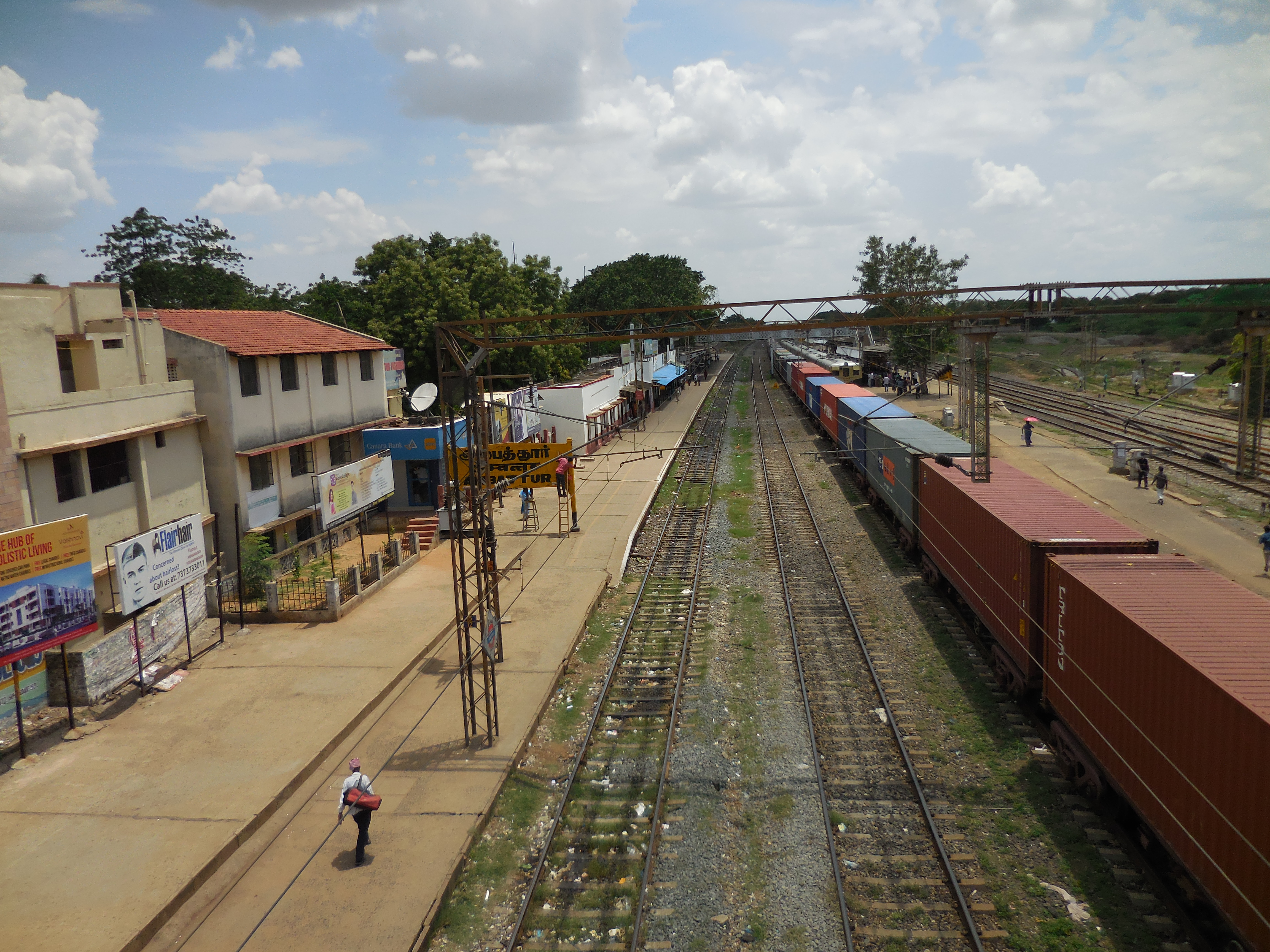 Chennai Ambattur railway station view2, taken on 5 July 2014, 12:42 pm